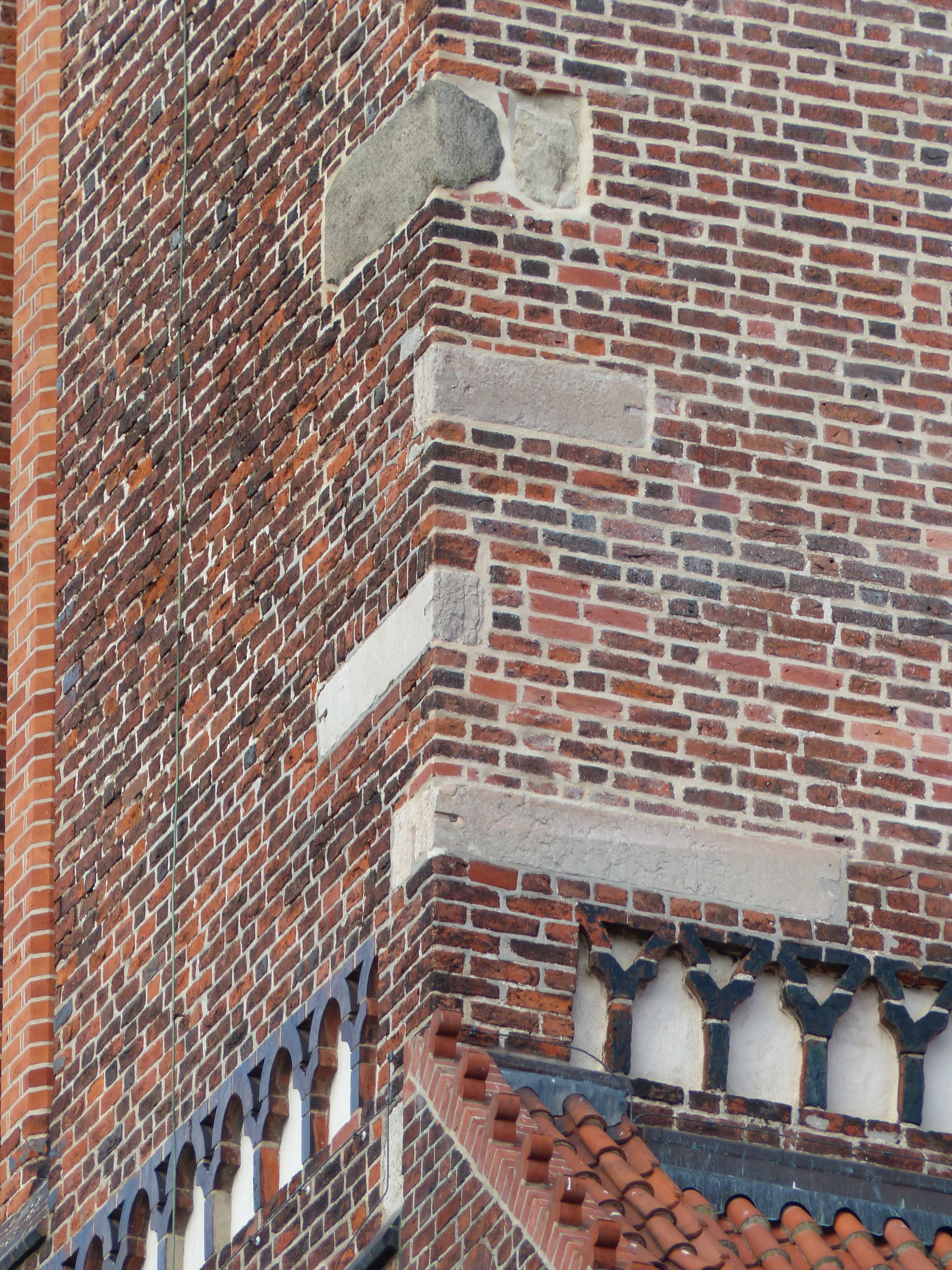 Nikolaikirche (St Nicholas church) in Wismar, lower southwestern edge of the tower, with chalk ashley and white paved blind aracdes